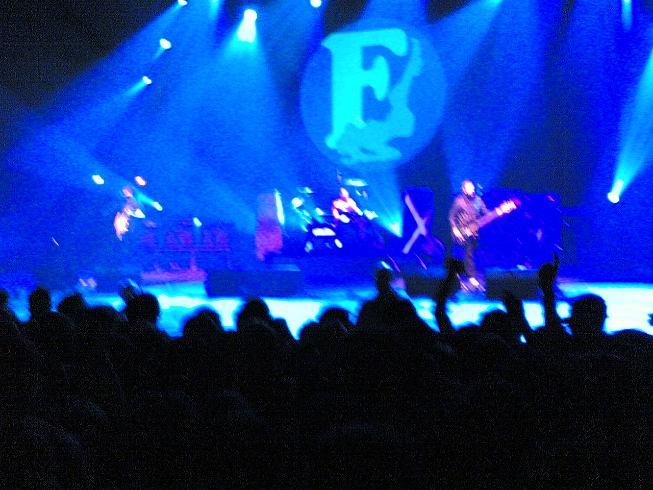 The Fratellis on stage